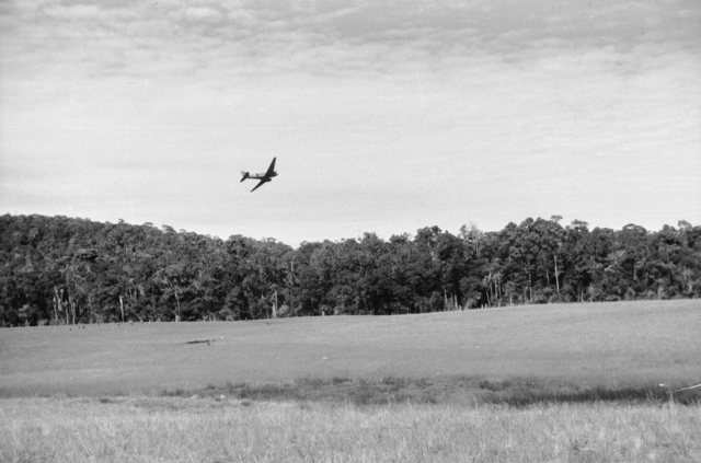 Myola, Papua, 1942-10. A United States Army Air Force (USAAF) aircraft carries out a supply dropping mission to the 2/4th and 2/6th Field Ambulances (not in view) which are camped on the plain below. Myola is an area of dry lakes located on a wide plateau at an altitude of 5,000 feet above sea level. Although clouds often close in around midday, the area provides an ideal site for the re-supply by air of Australian forces advancing along the Kokoda Trail. In carrying out their missions, many USAAF airmen tended to drop the supplies from too great a height, causing them to drift off into the surrounding jungle-covered hills from where they were never recovered. By contrast, RAAF airmen always carried out their drops at low level, leading to full recovery of the supplies.